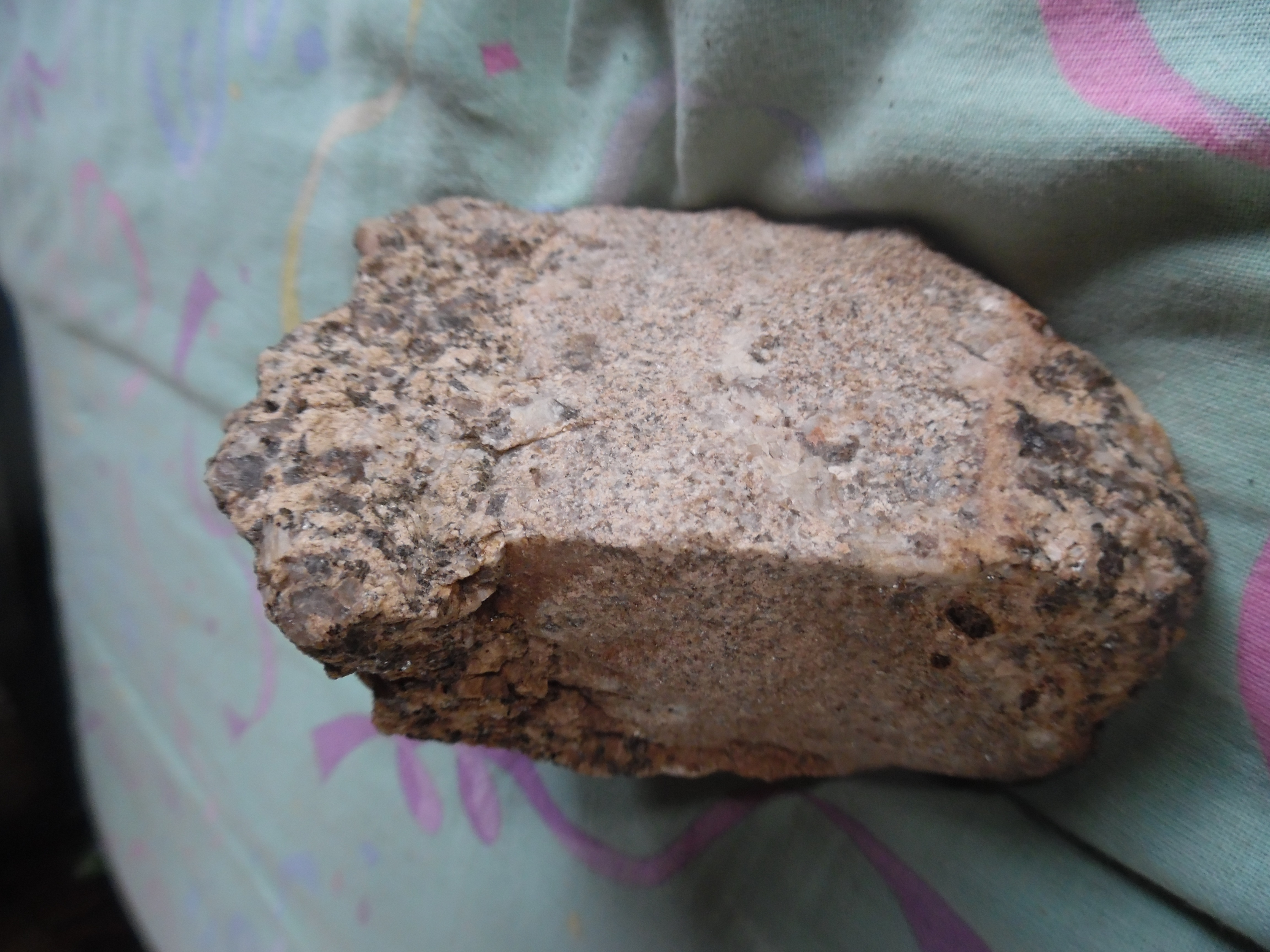 A 5 cm aplite dike intruded into the Piégut-Pluviers Granodiorite. Sample found near Savignac-de-Nontron, Dordogne, France.